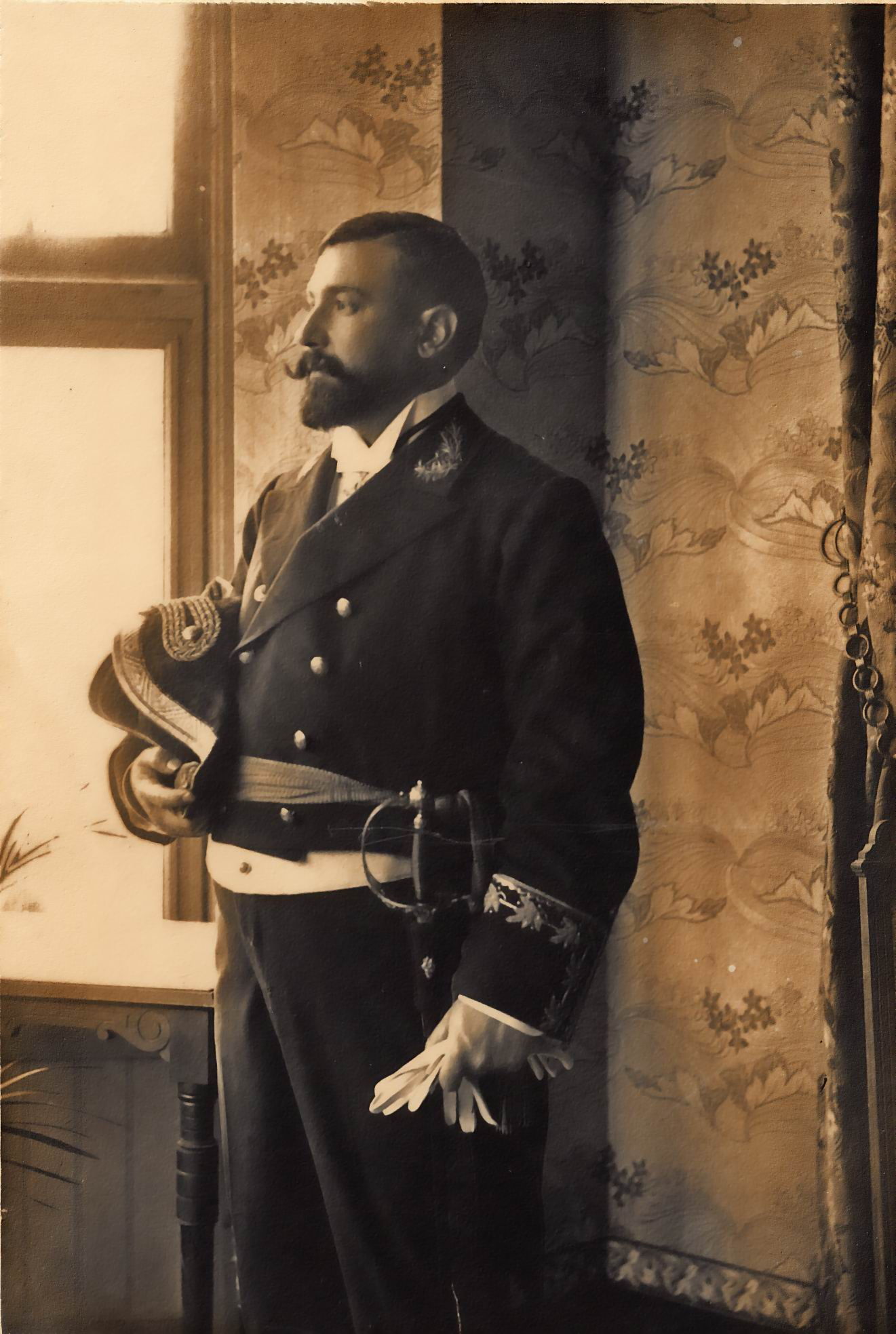 Andrés Monche y Ríos wearing the uniform of civil engineer